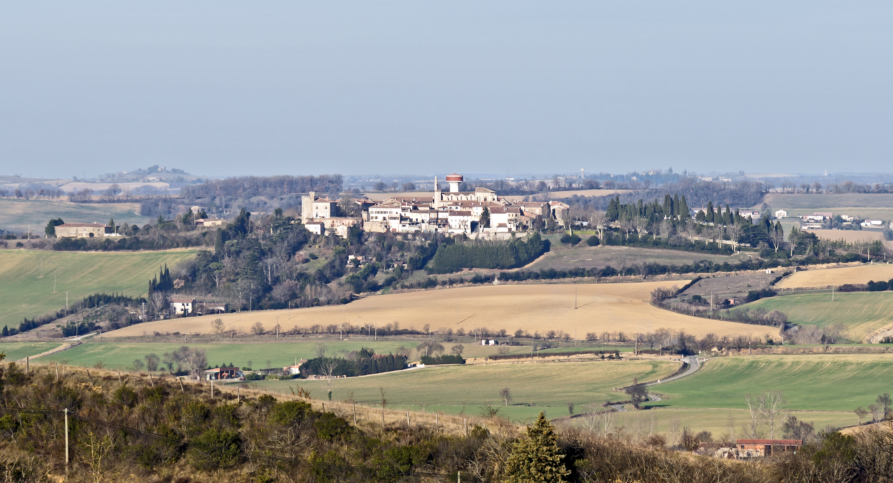 Saint-Julia, Haute-Garonne, France. View from St Felix de Lauragais.